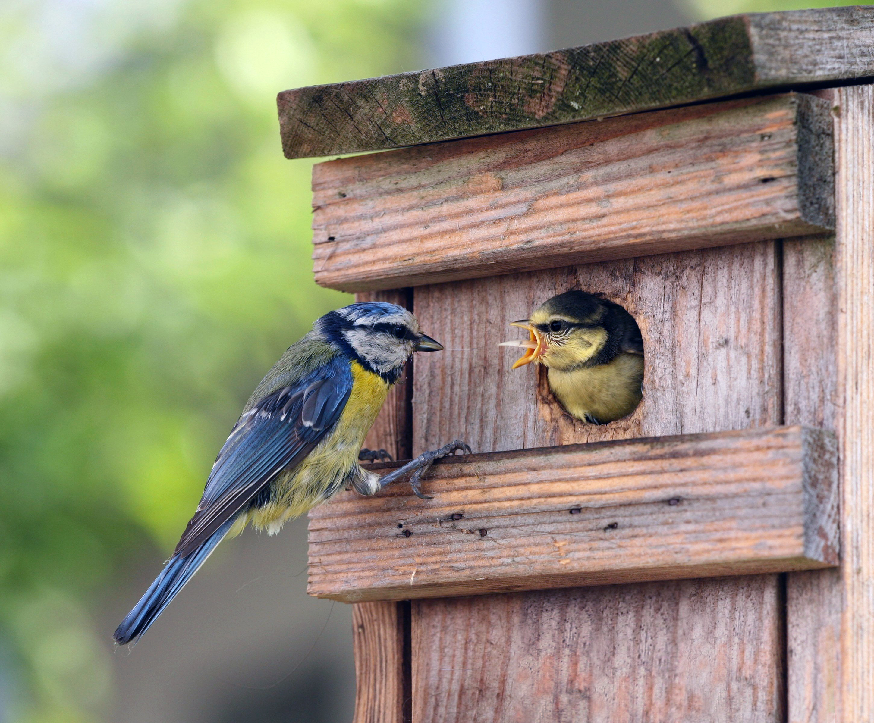 Blue Tit (Parus caeruleus) feeding a young (saliva strand still visible)